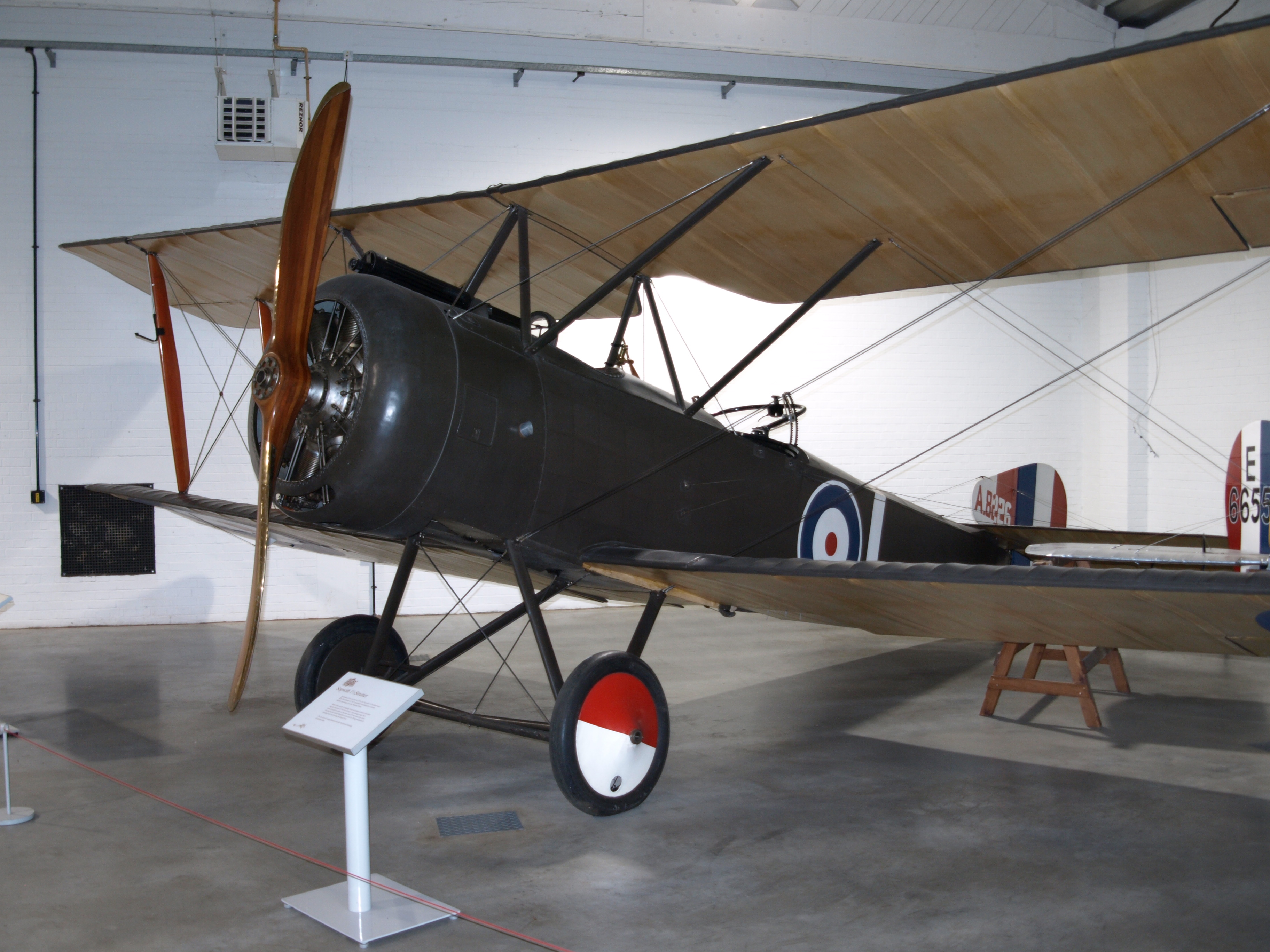 Sopwith 1 1/2 Strutter WW1 aircraft on display at the Royal Air Force Museum London.